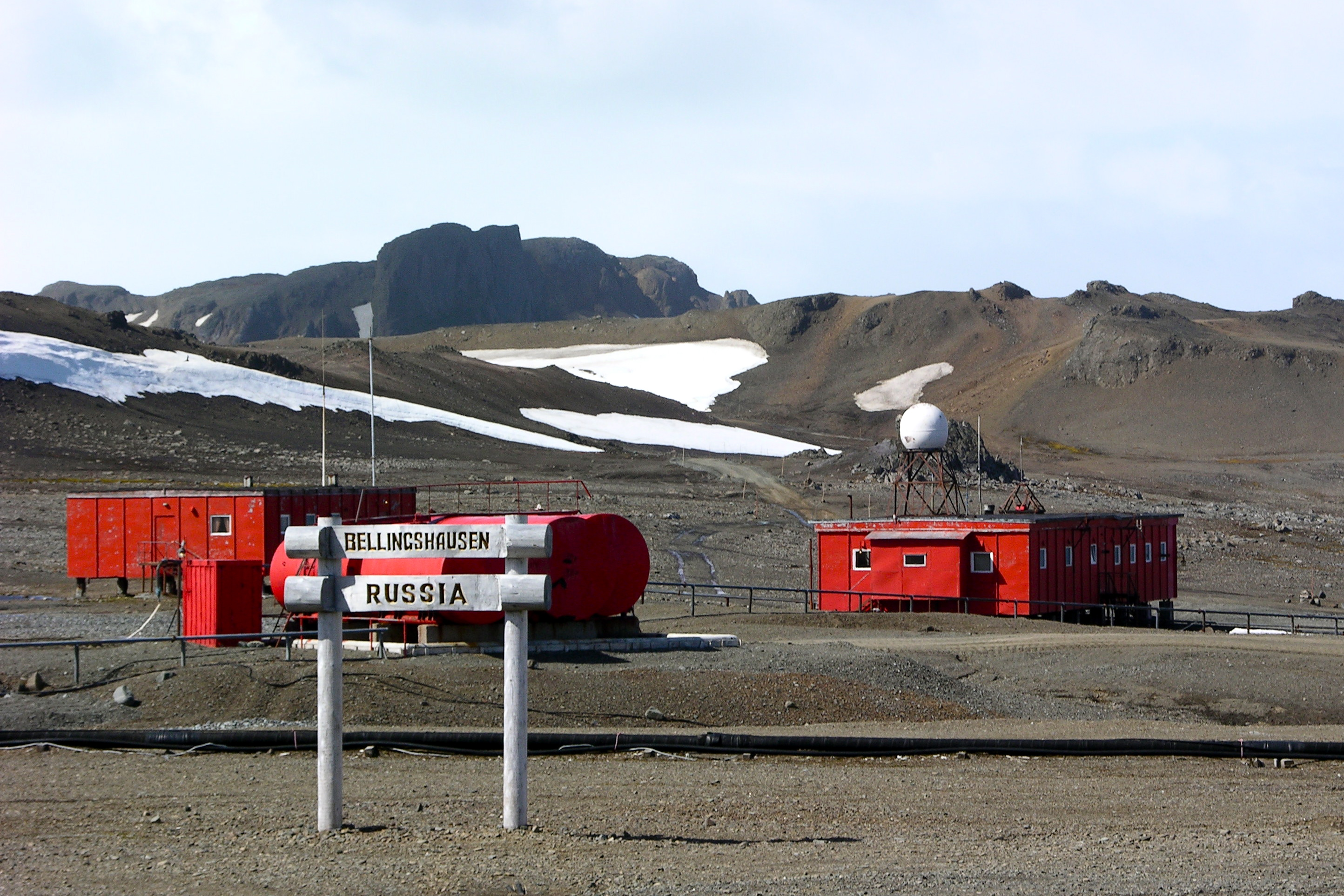 Antarctic Base Bellingshausen, Russia, on King George Island.